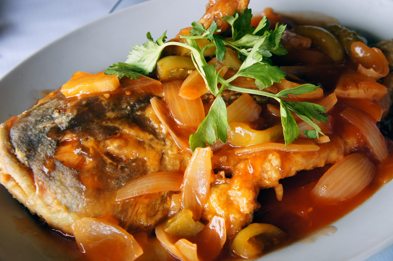 Sweet and sour seabass served at Golden Prawn Restaurant